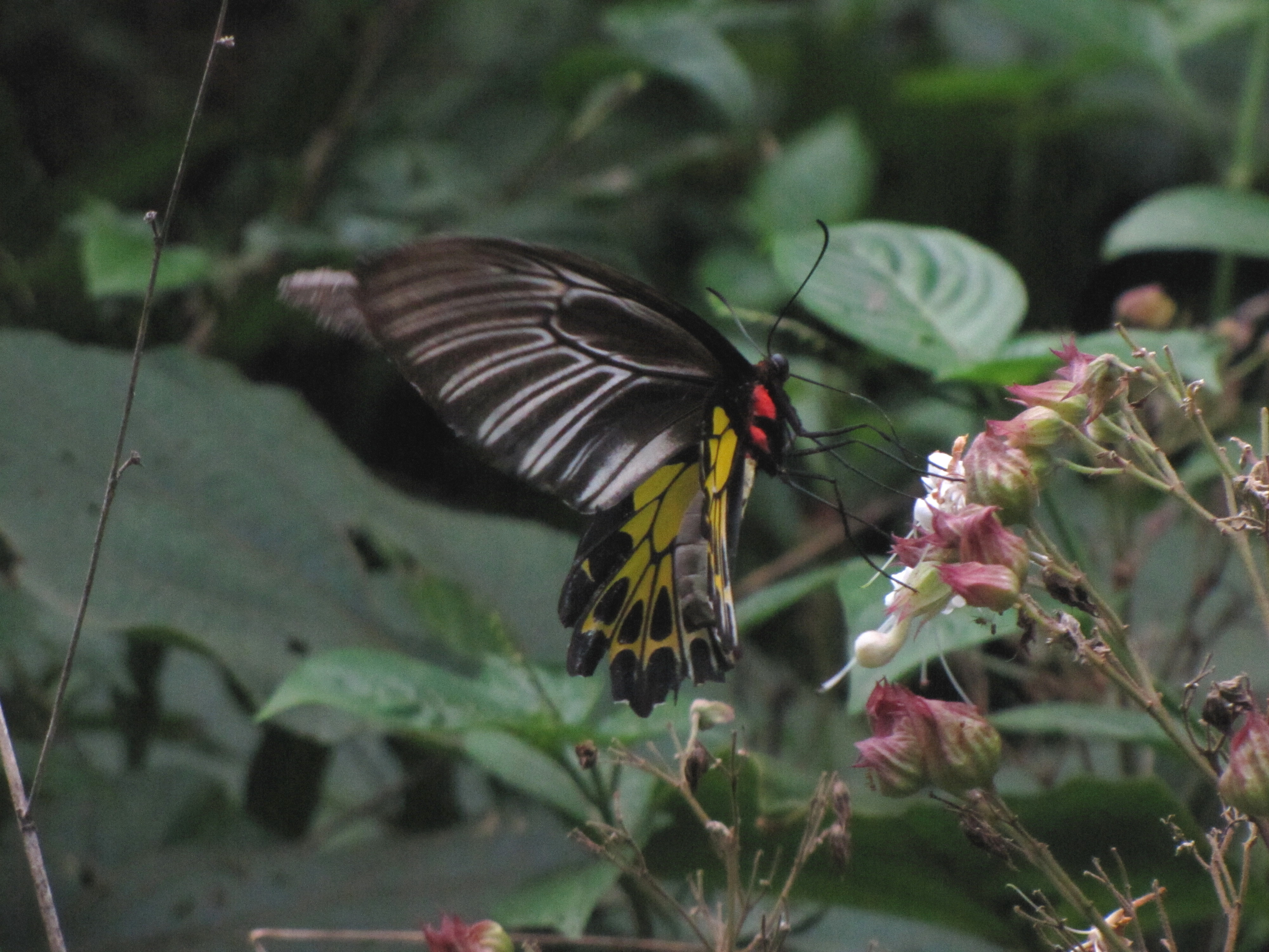 Common Birdwing or troides helena from Koovery